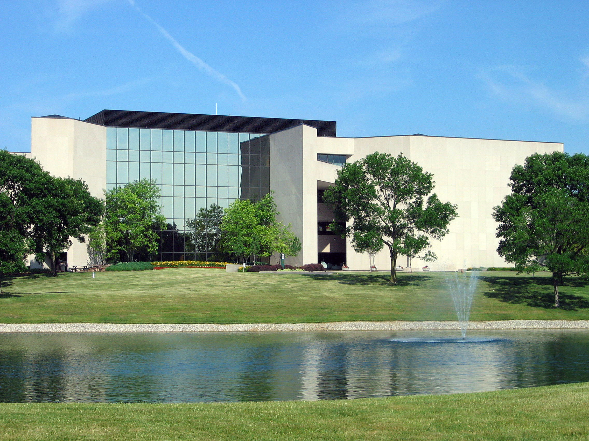 The Kilgour Building, the headquarters of the library non-profit OCLC.